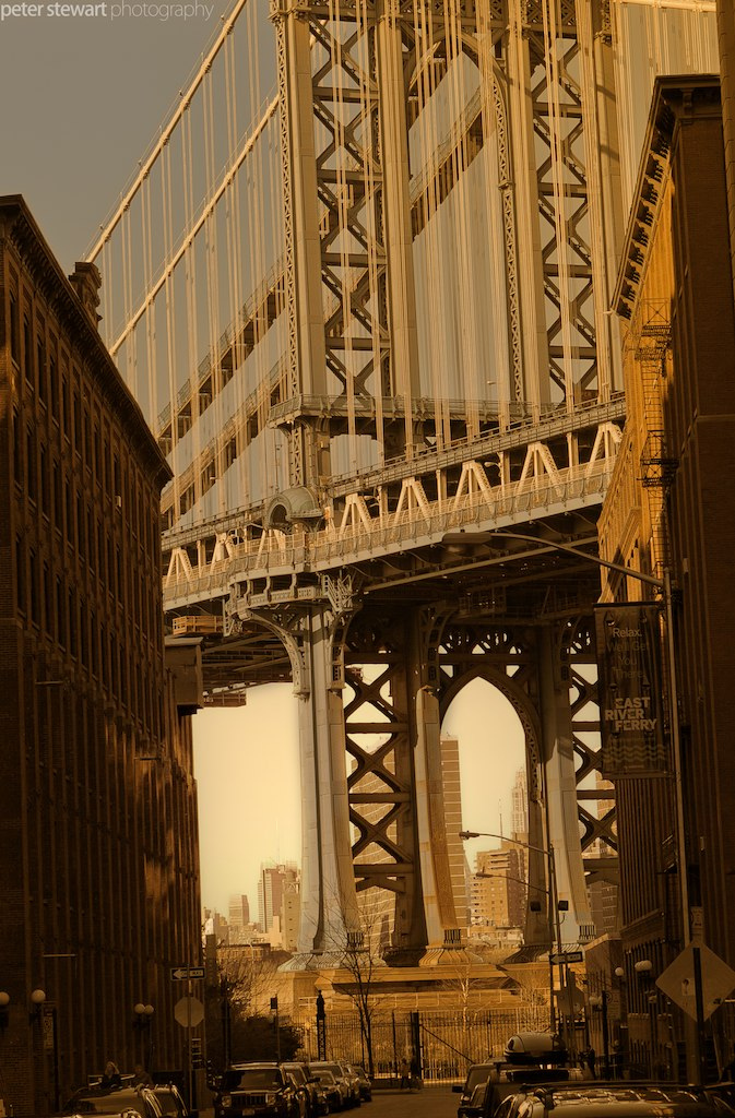 tried to recreate the famous image used on the poster for the film of the same name